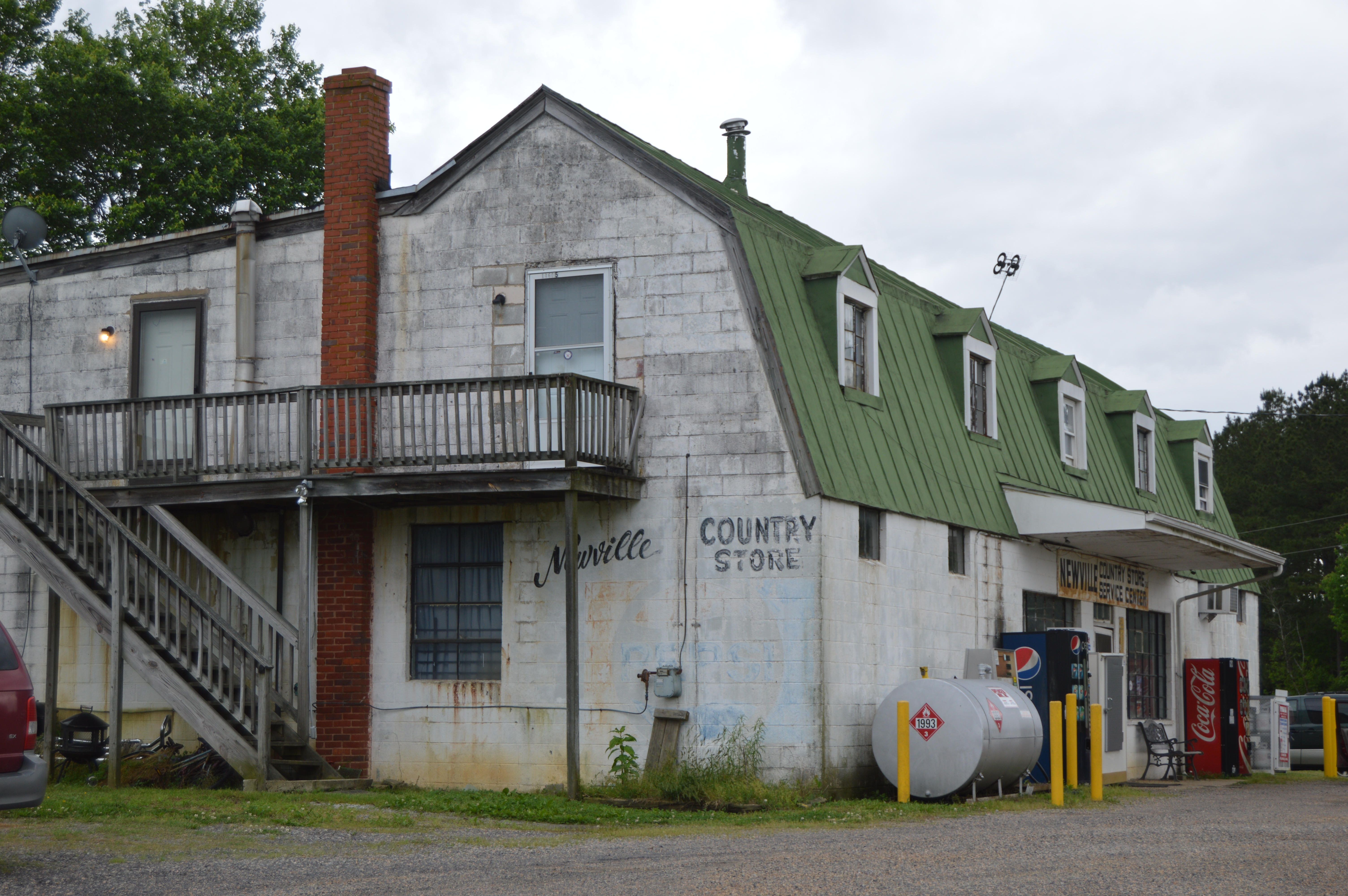 Front of the Newville Country Store, located at the central intersection of Newville in Prince George County, Virginia, United States.